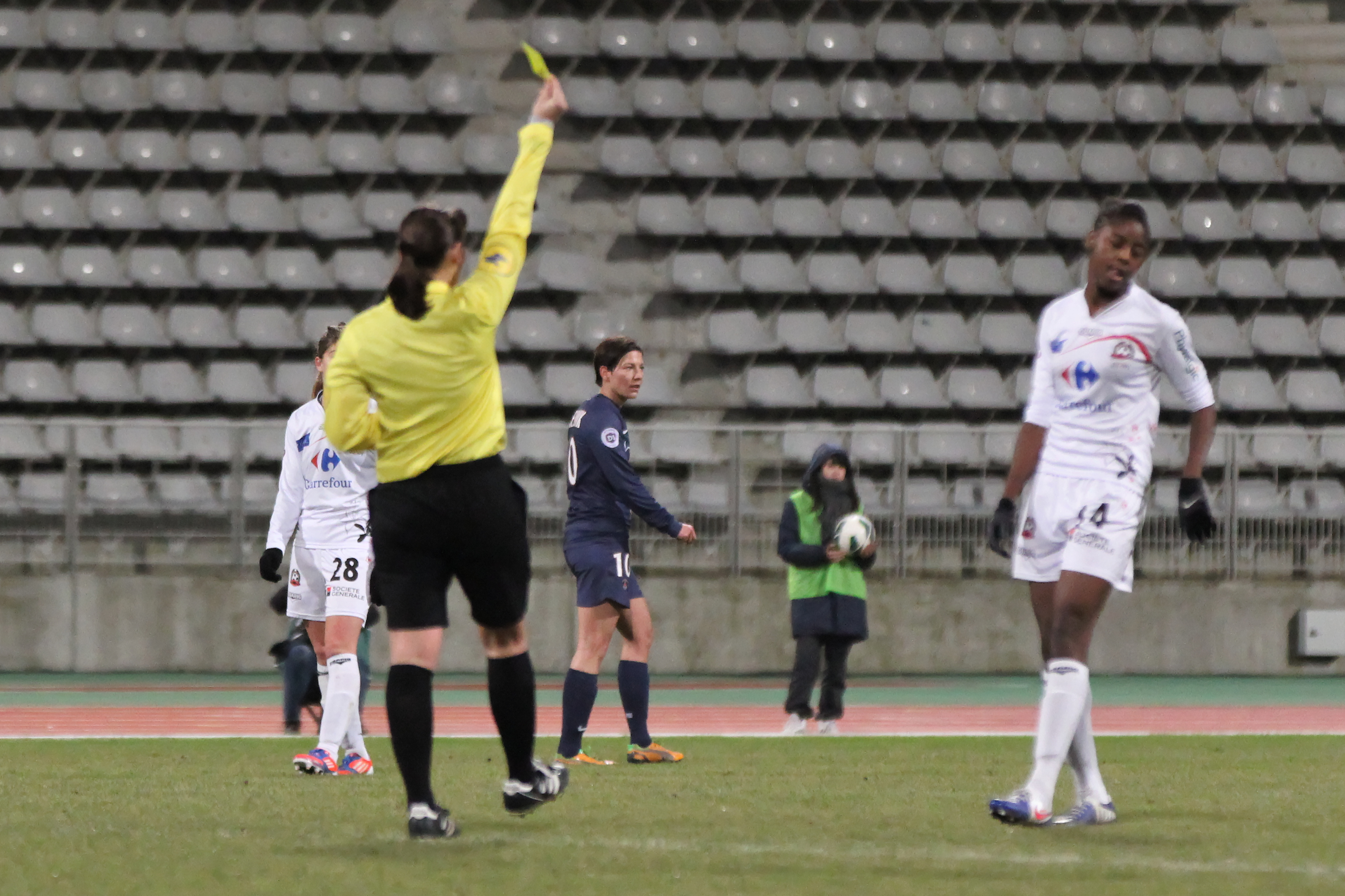 PSG-Juvisy, december 9th, 2012. Referee giving a yellow card to the player of Juvisy Aïssatou Tounkara.